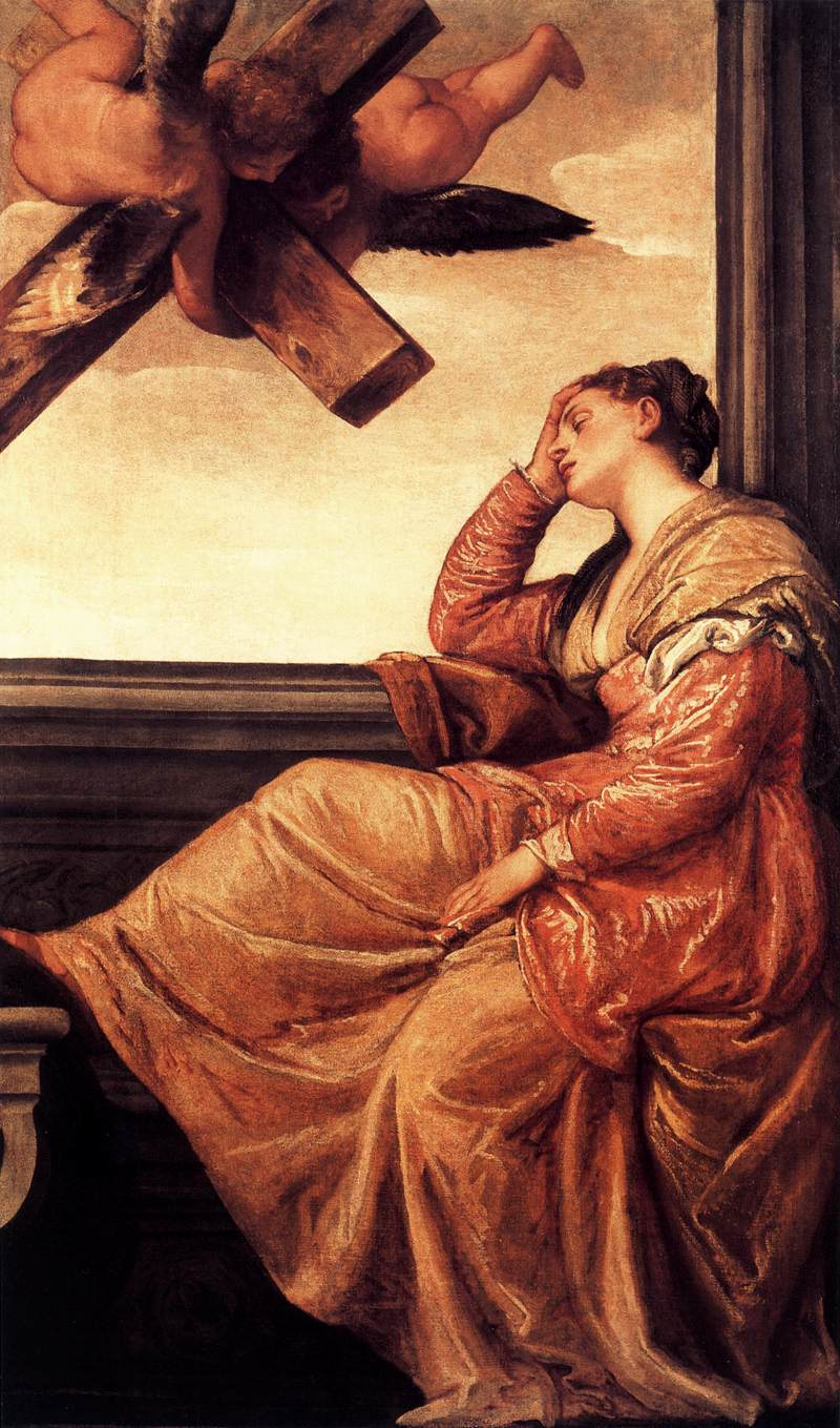 The Vision of Saint Helena. National Gallery, London Saint Helena's vision of the True Cross is represented by two angels with the cross appearing to her as she sleeps. Saint Helena, mother of the Emperor Constantine, is said to have received divine guidance in her quest to discover the place where the True Cross, on which Christ had been crucified, was buried. The attribution to Veronese has occasionally been doubted but it is generally accepted to be a relatively early work by this artist.